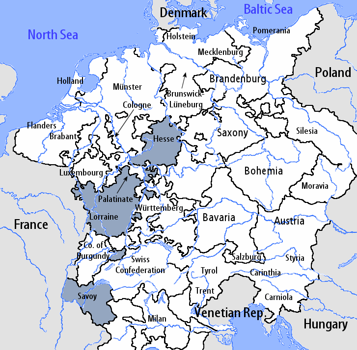 Upper Rhenish Circle